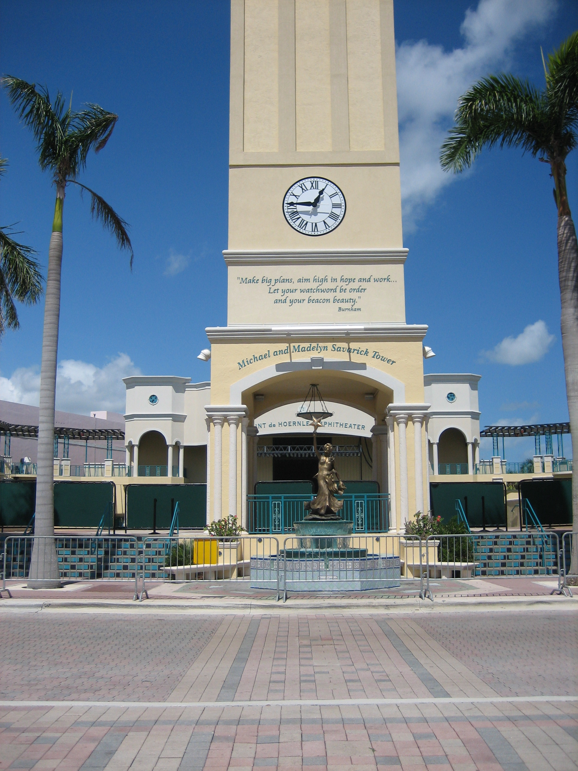 View of part of "Mizner Park", an upscale combination mall and residential complex with museum and other amenities, Boca Raton, Florida. Photo by Infrogmation, March 2006